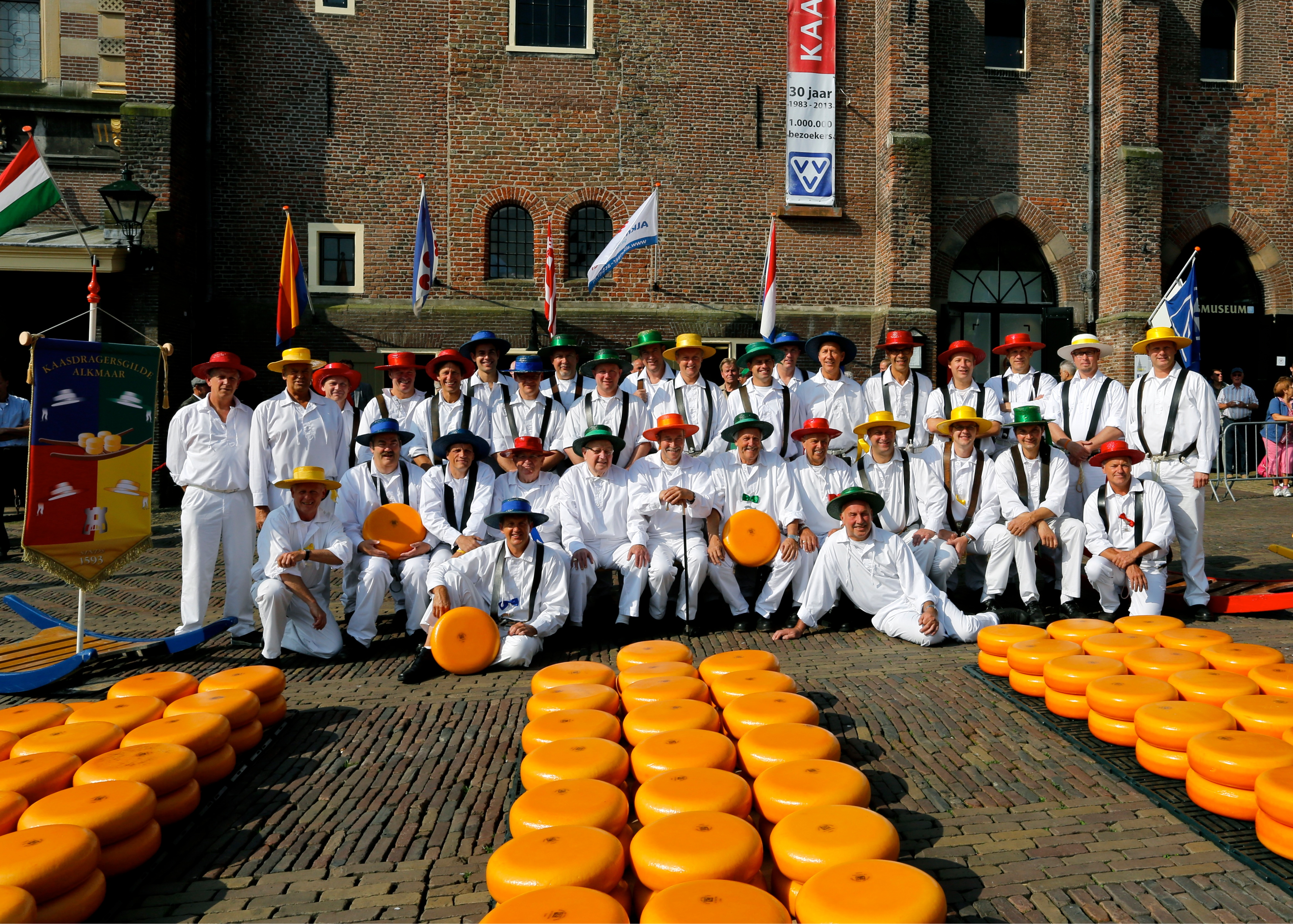 Cheesecarriers from Alkmaar